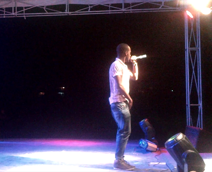 Slim Burna performing at Liberation Stadium, Port Harcourt.